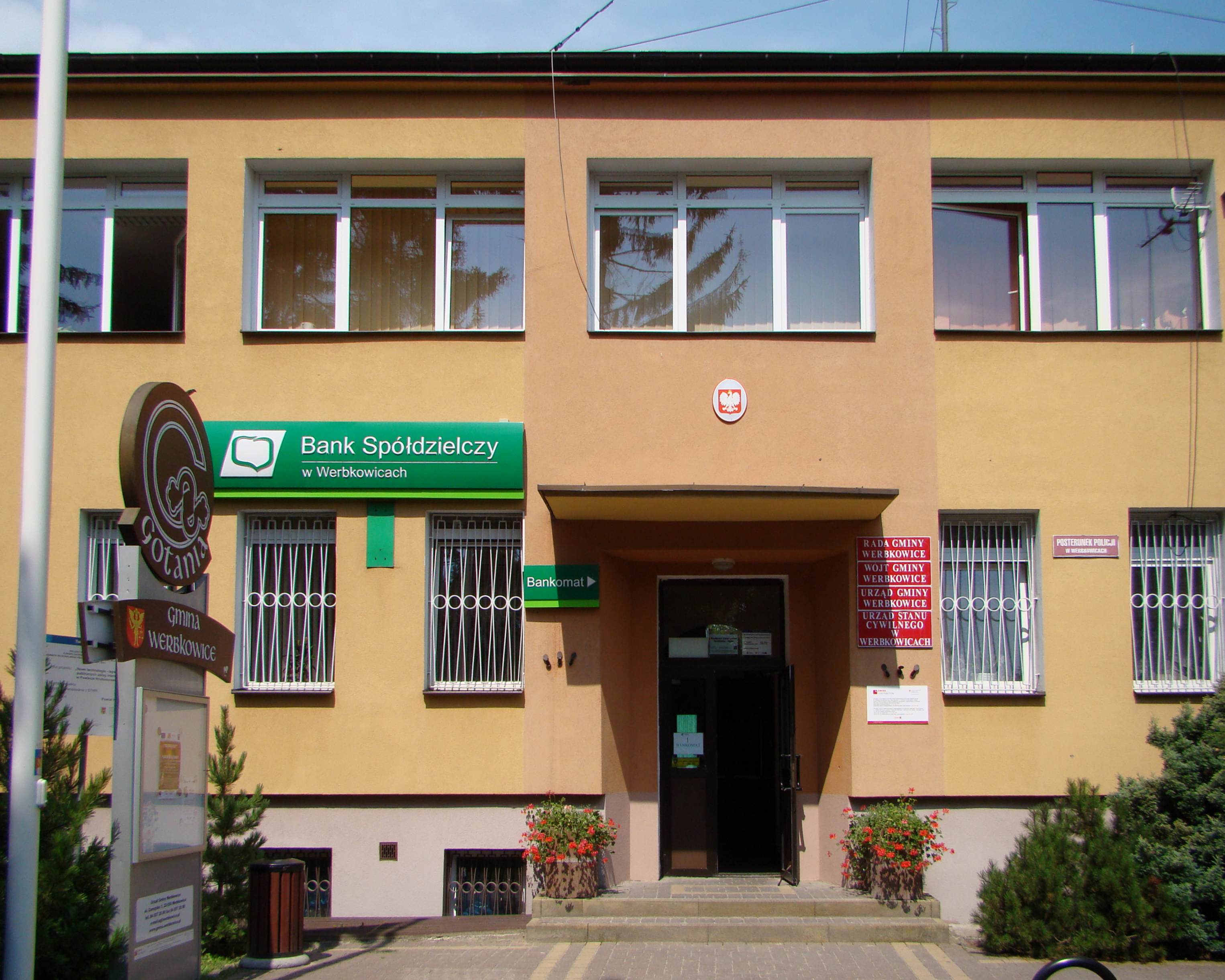 Werbkowice Gmina Office, Register Office